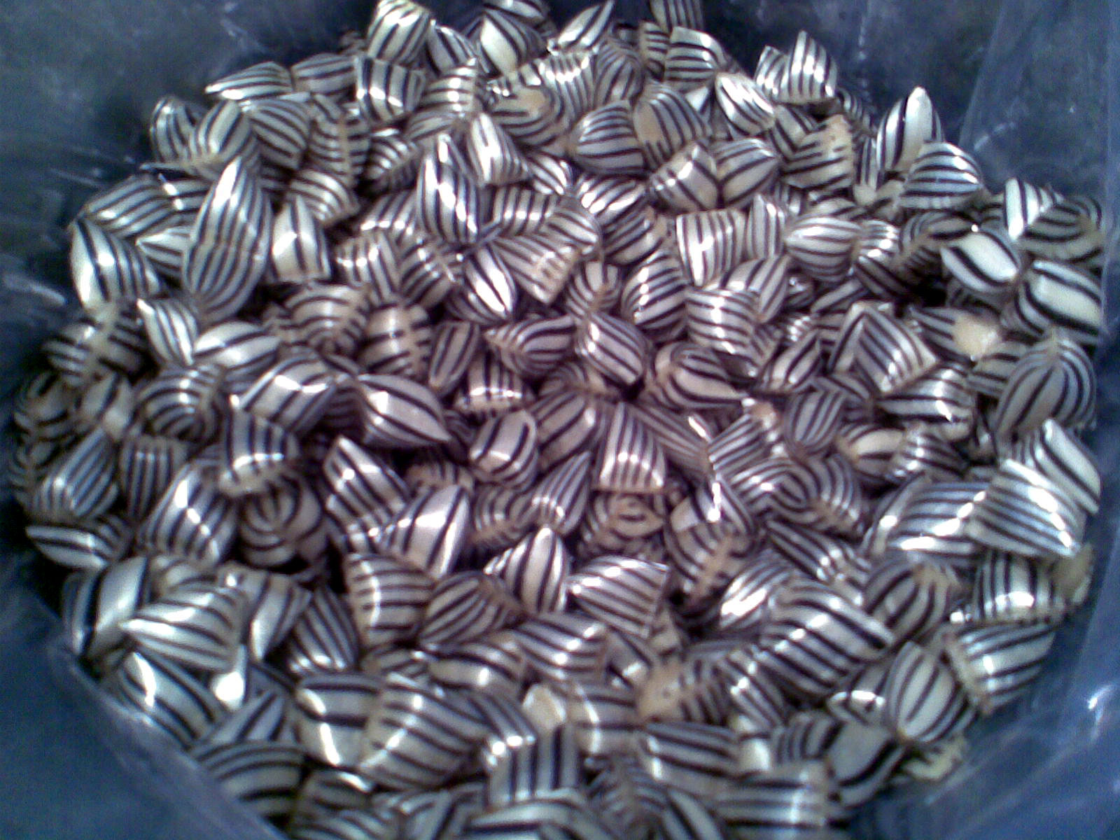 Boiled sweets with liquorice and banana aroma